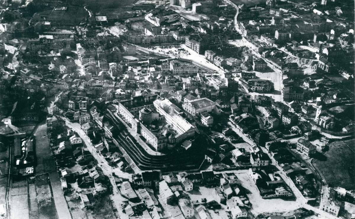 Aerial picture of Lublin (1930s).